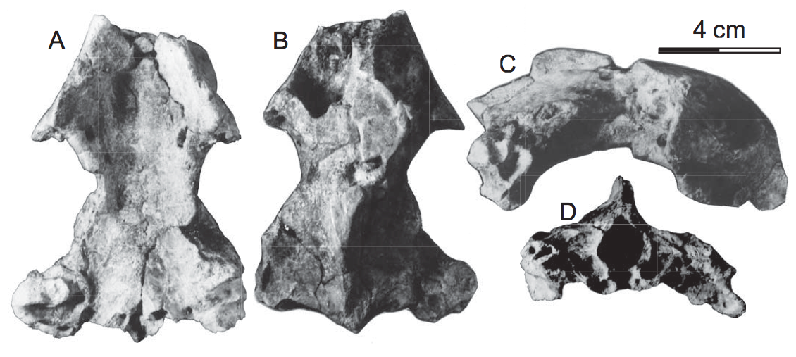 Khunnuchelys lophorhothon sp. nov. from Baykhozha, northeastern Aral Sea region, Kazakhstan, Bostobe Formation, Santonian–early Campanian, Late Cretaceous, ZIN PH 1/146, a partial skull; in ventral (A), dorsal (B), lateral (C), and posterior (D) views